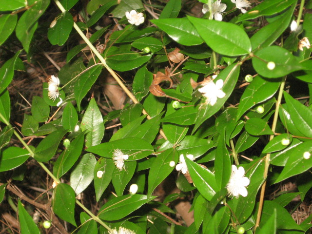 Myrtus communis (Pisan Mountains)